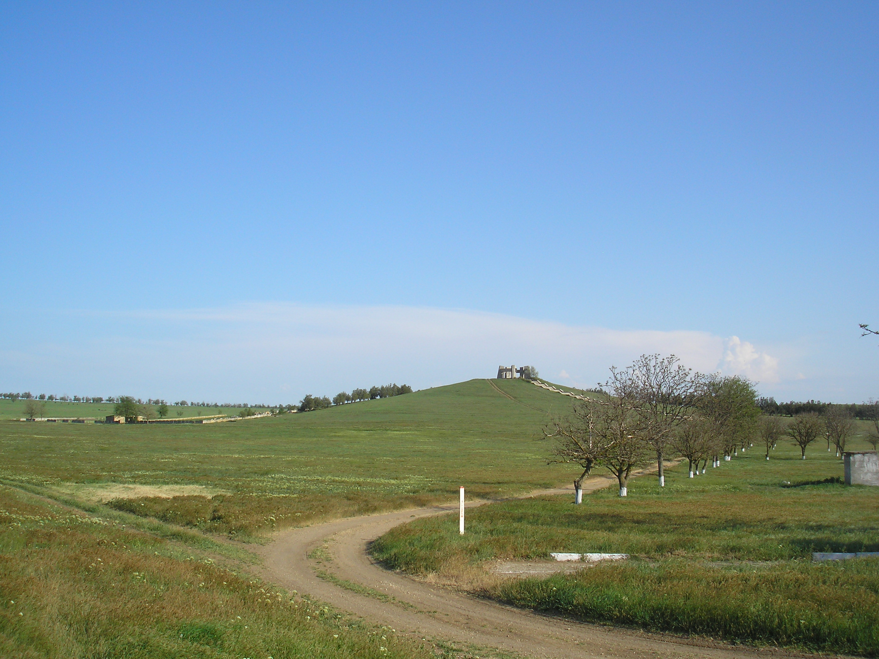 Memorial in the village Geroyskoe, Saki district, Crimea